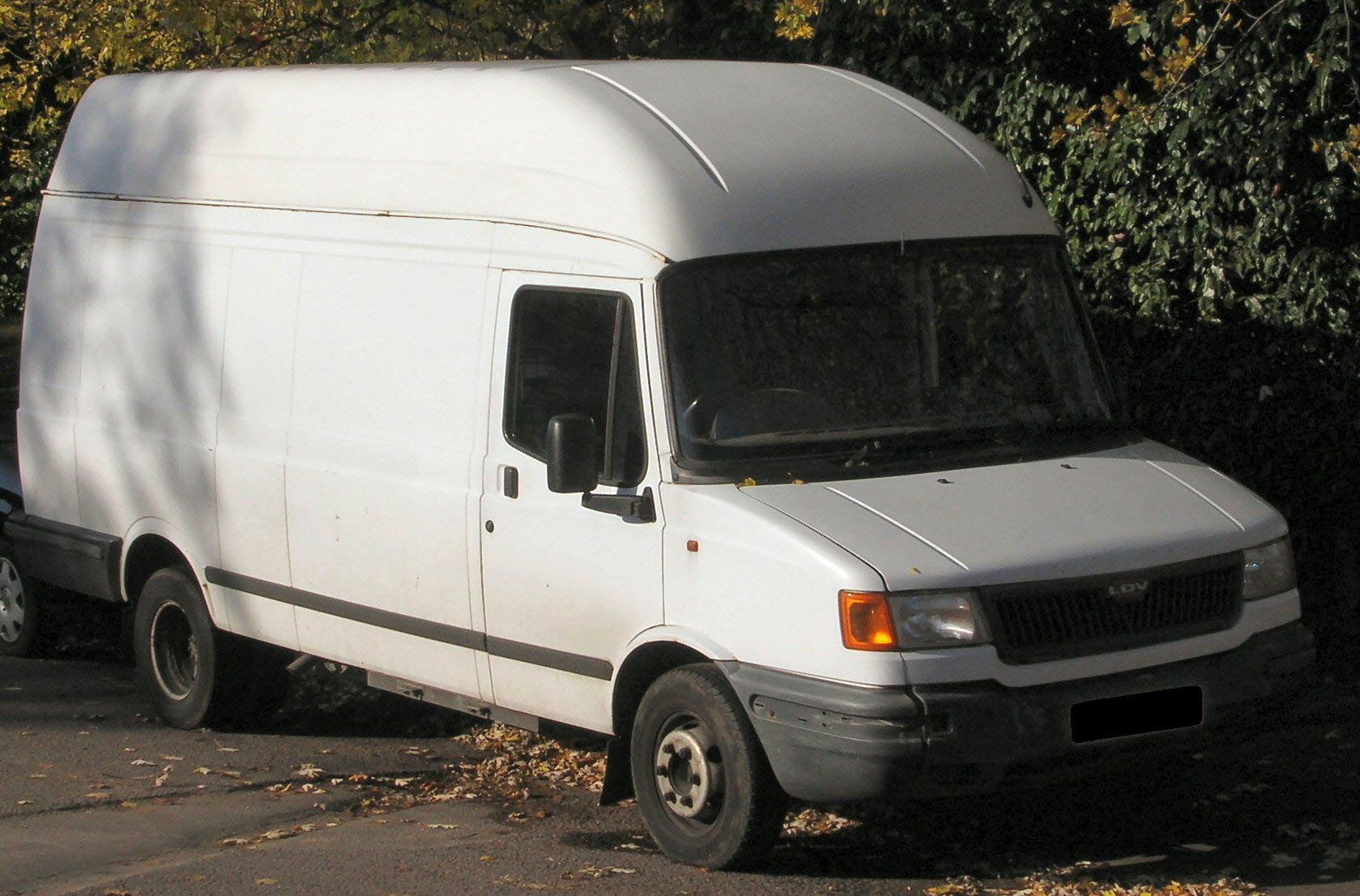 A 1997 LDV Convoy